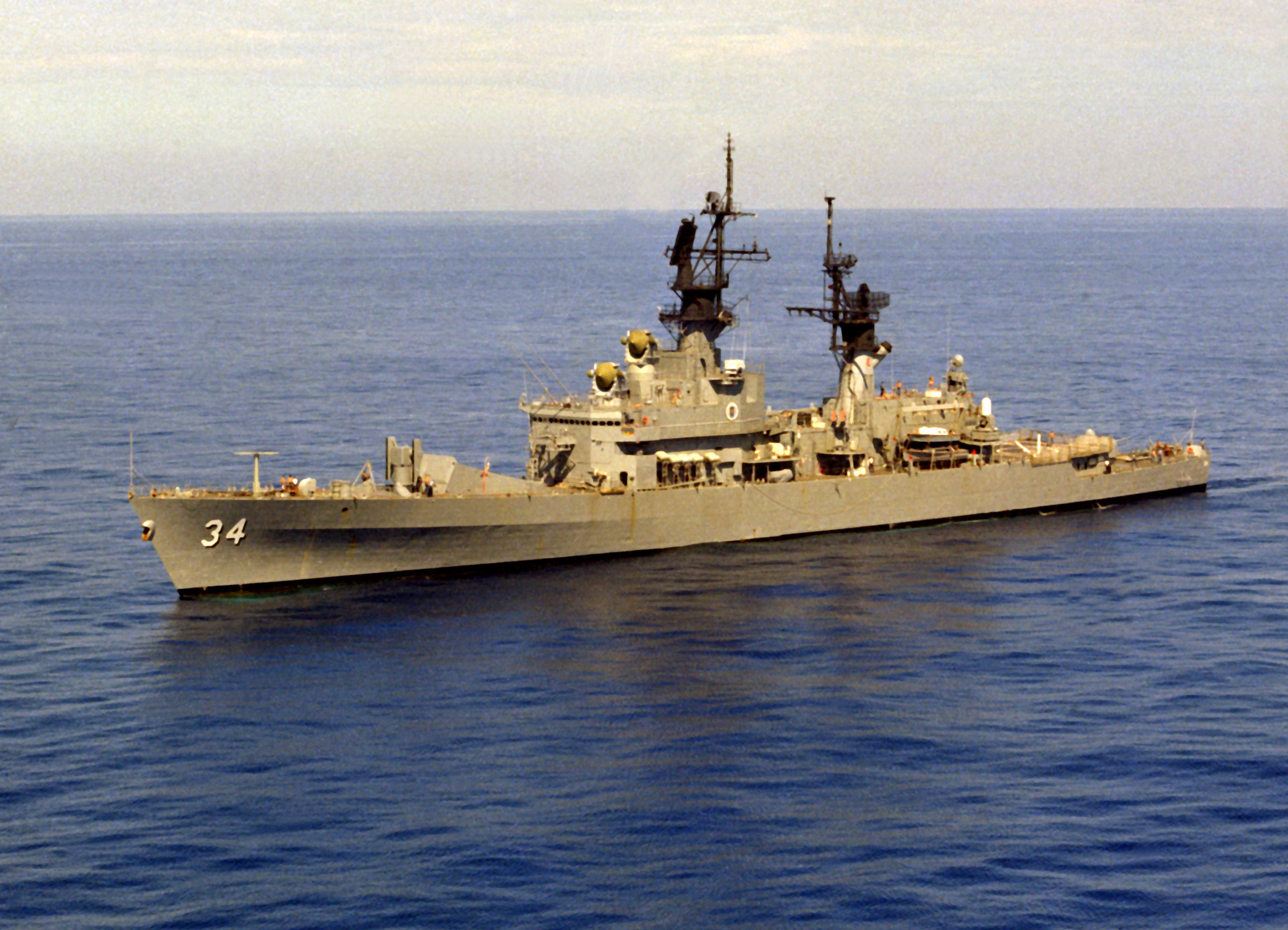 A port bow view of the guided missile cruiser USS BIDDLE (CG-34) underway.